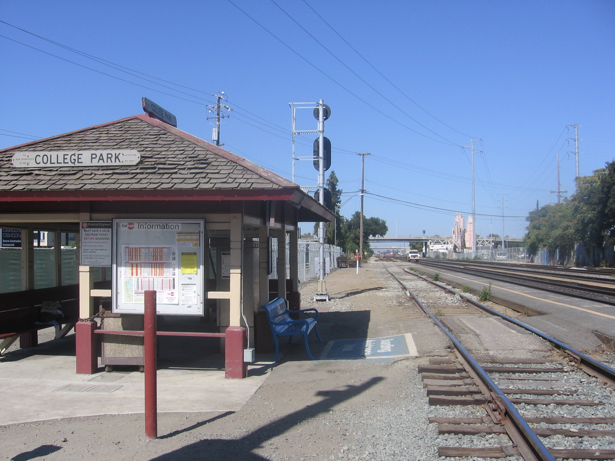 The College Park (Caltrain station) in San José, California, USA.